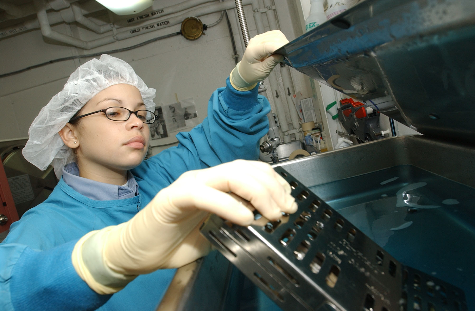 Pacific Ocean (Nov. 14, 2003) -- Dental Technician 3rd Class Joann Quinones, from Killeen, Texas, sterilizes dental instruments in the cold sterile aboard USS John C. Stennis (CVN 74). Stennis and her embarked Carrier Air Wing Fourteen (CVW-14) are at sea conducting Composite Training Unit Exercise (COMPTUEX) in preparation for an upcoming deployment. U.S. Navy photo by Photographer's Mate 3rd Class Joshua Word. (RELEASED)